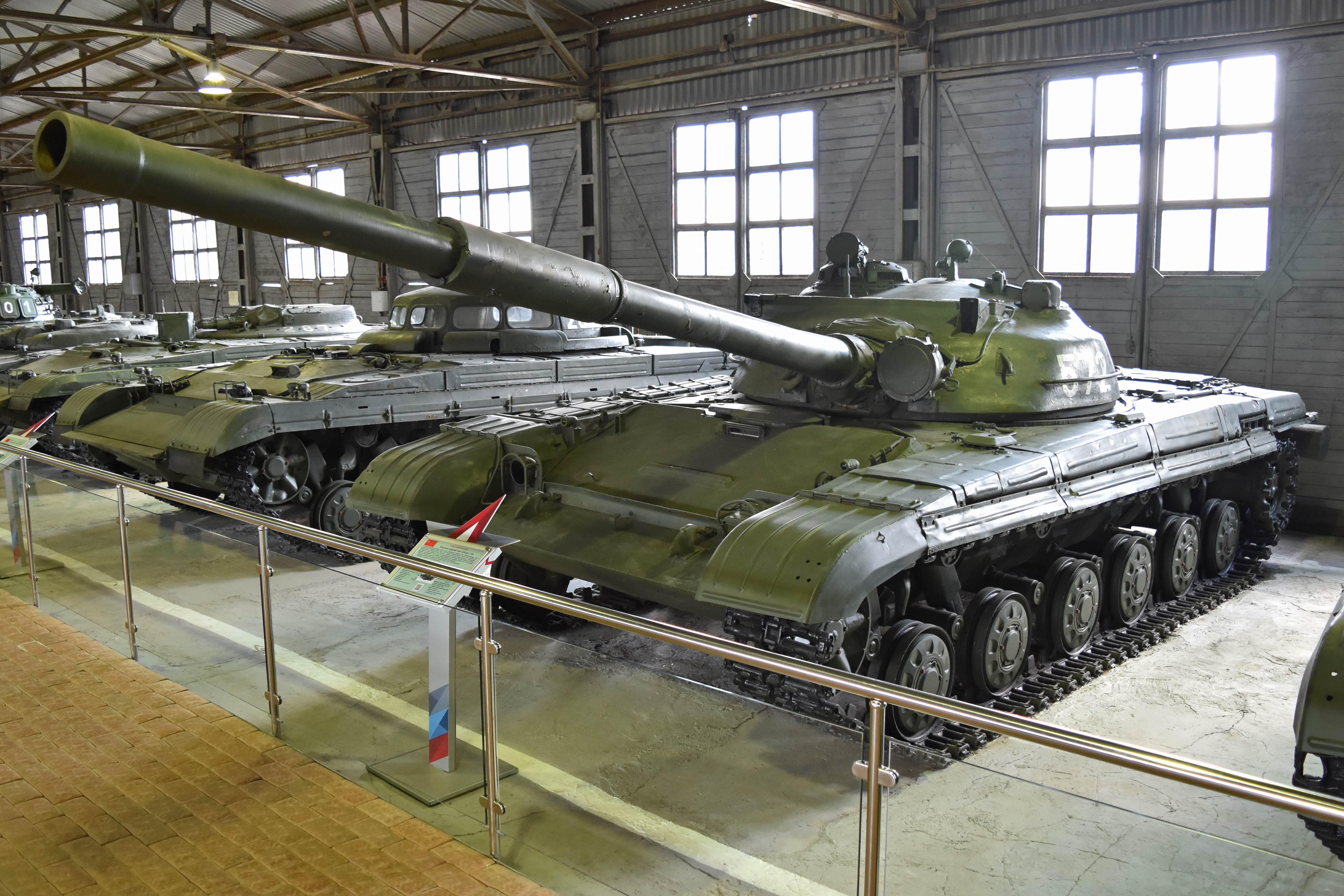 Obiekt 172 (Object 172) was a 1970 prototype of what would eventually become the T-72, but was based on the T-64 chassis. The immediate development of Obiekt 172 was Obiekt 172M, which is parked next to it in the museum. On display in what is best known as Hall 2 of the Kubinka Tank Museum, although its official title is now Pavilion 2 in Area 2 of the Park Patriot museum. Kubinka, Moscow Oblast, Russia. 24th August 2017.